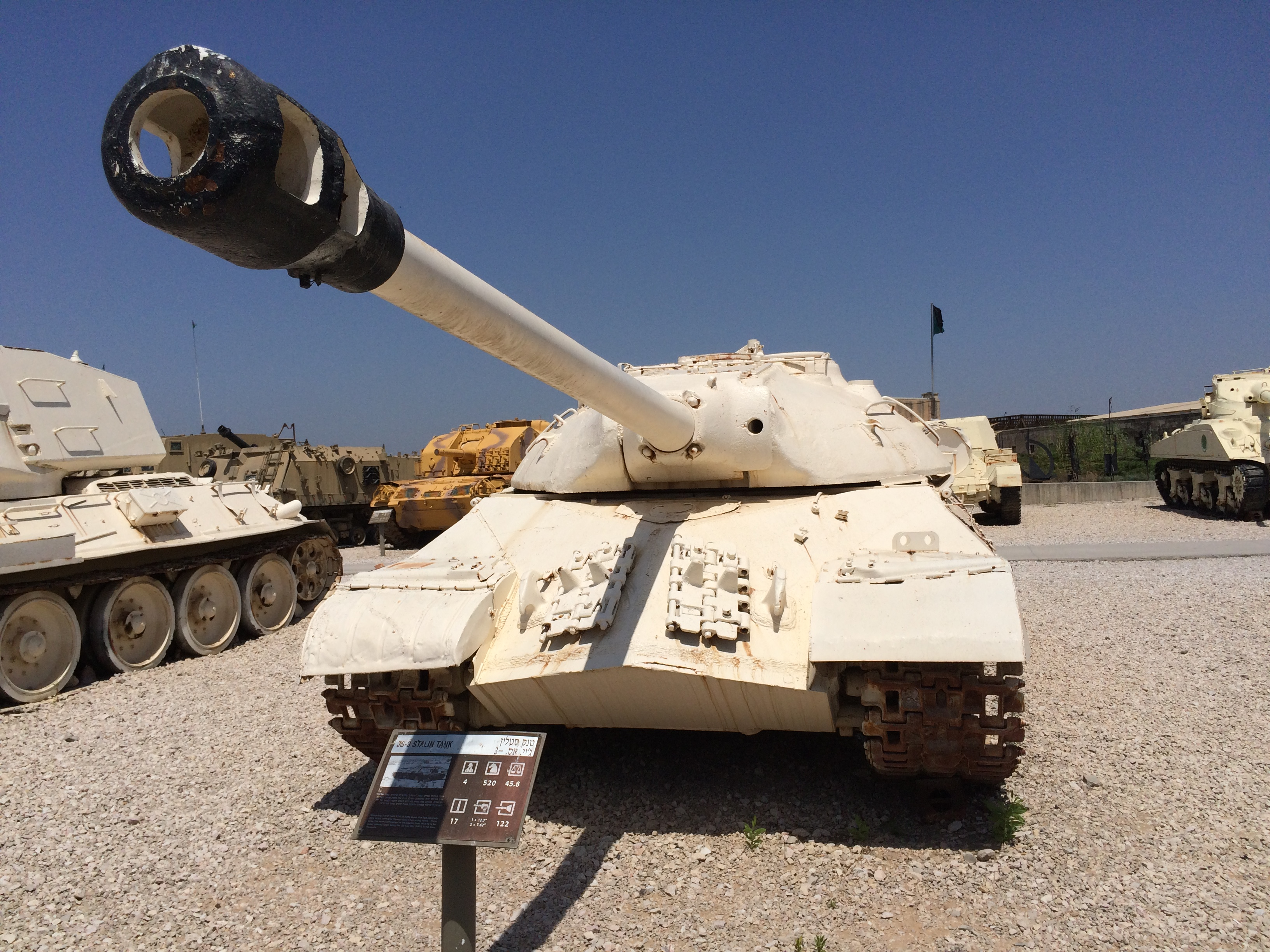 "Joseph Stalin" IS-3 tank at the Israeli Armoured Corps/Yad la-Shiryon Museum, Latrun, Israel.